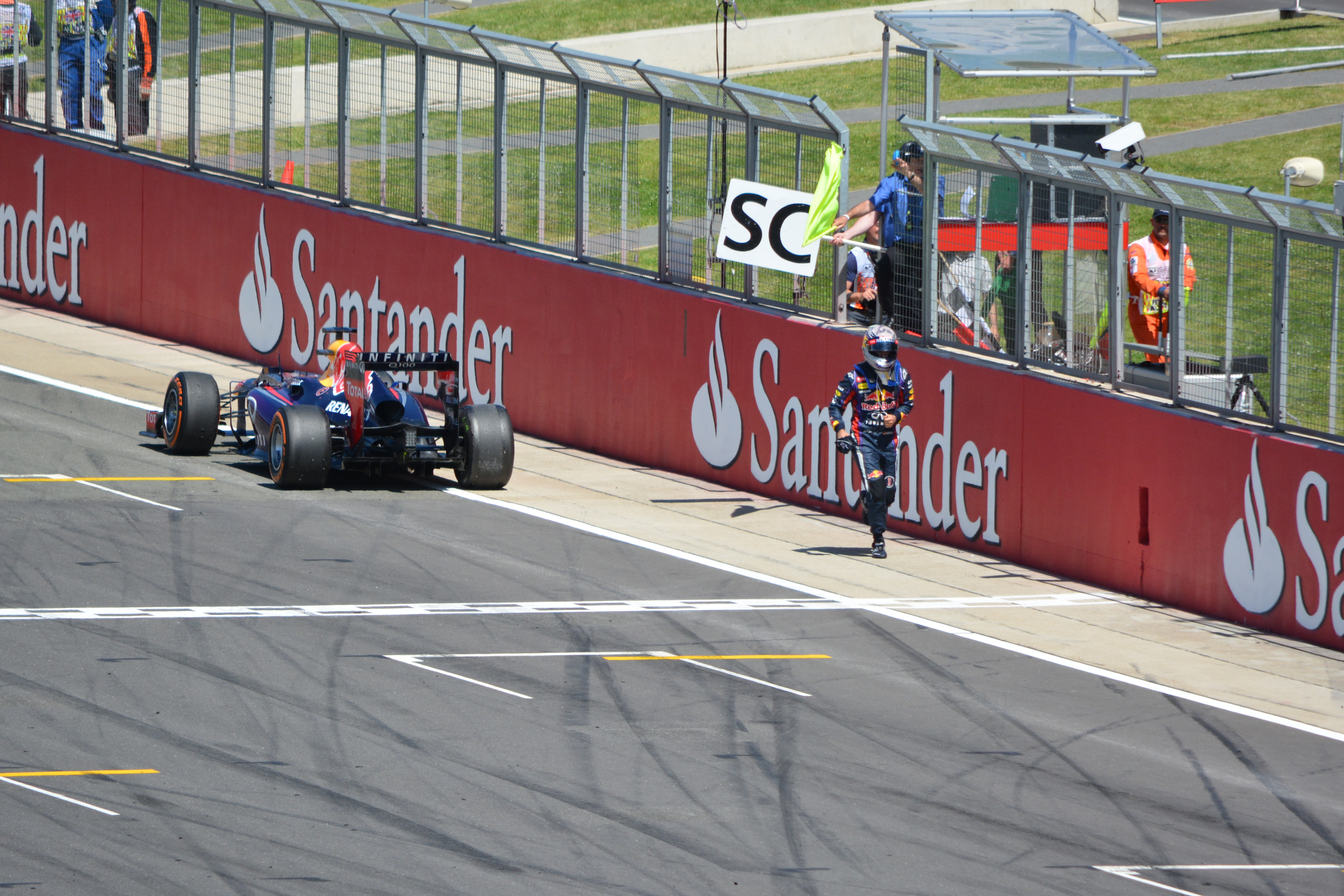 Sebastian Vettel (Red Bull) at the 2013 British Grand Prix.